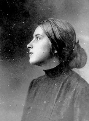 Sofija Kymantaitė-Čiurlionienė (1911)